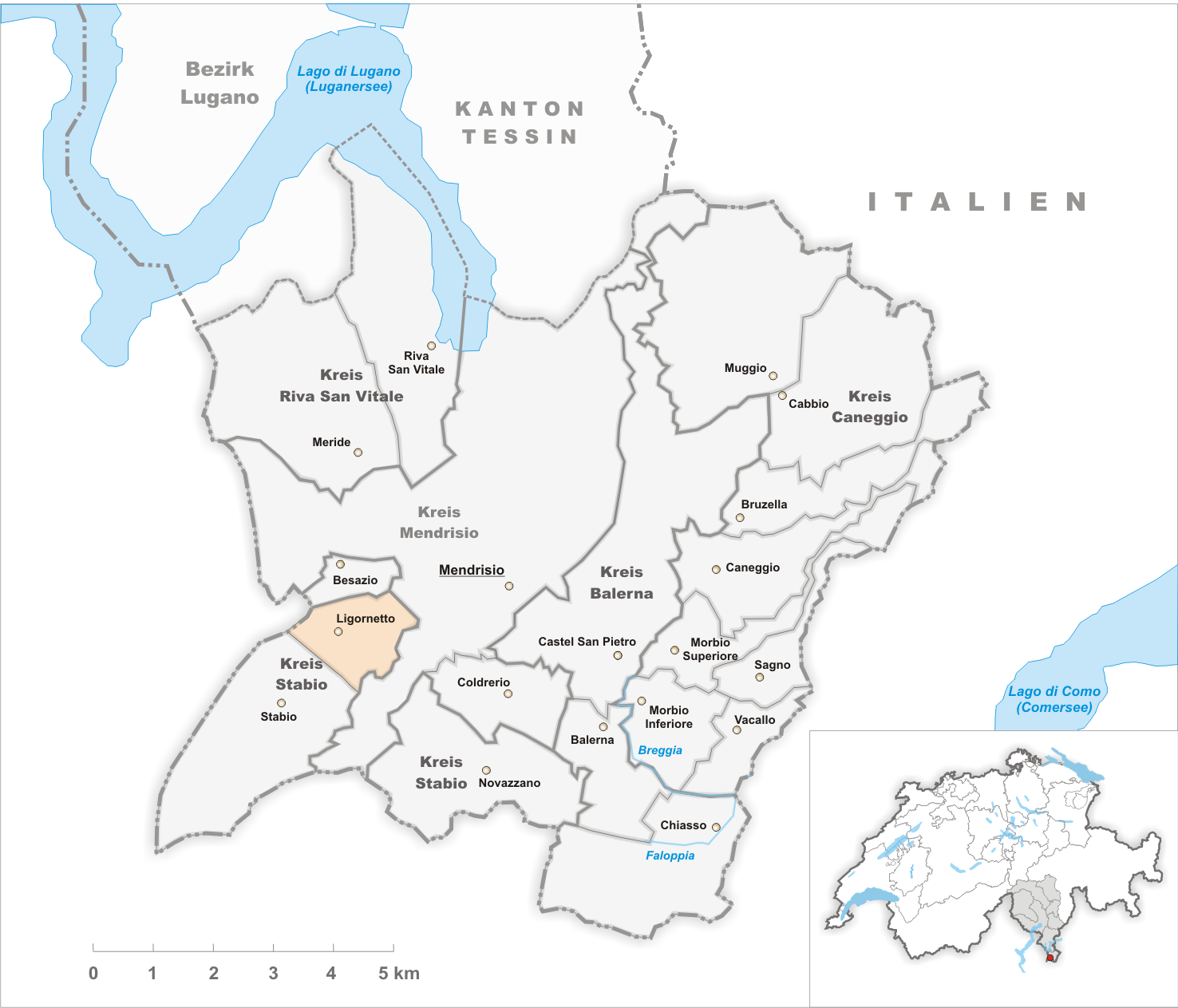 Municipality Ligornetto Artist: Tschubby